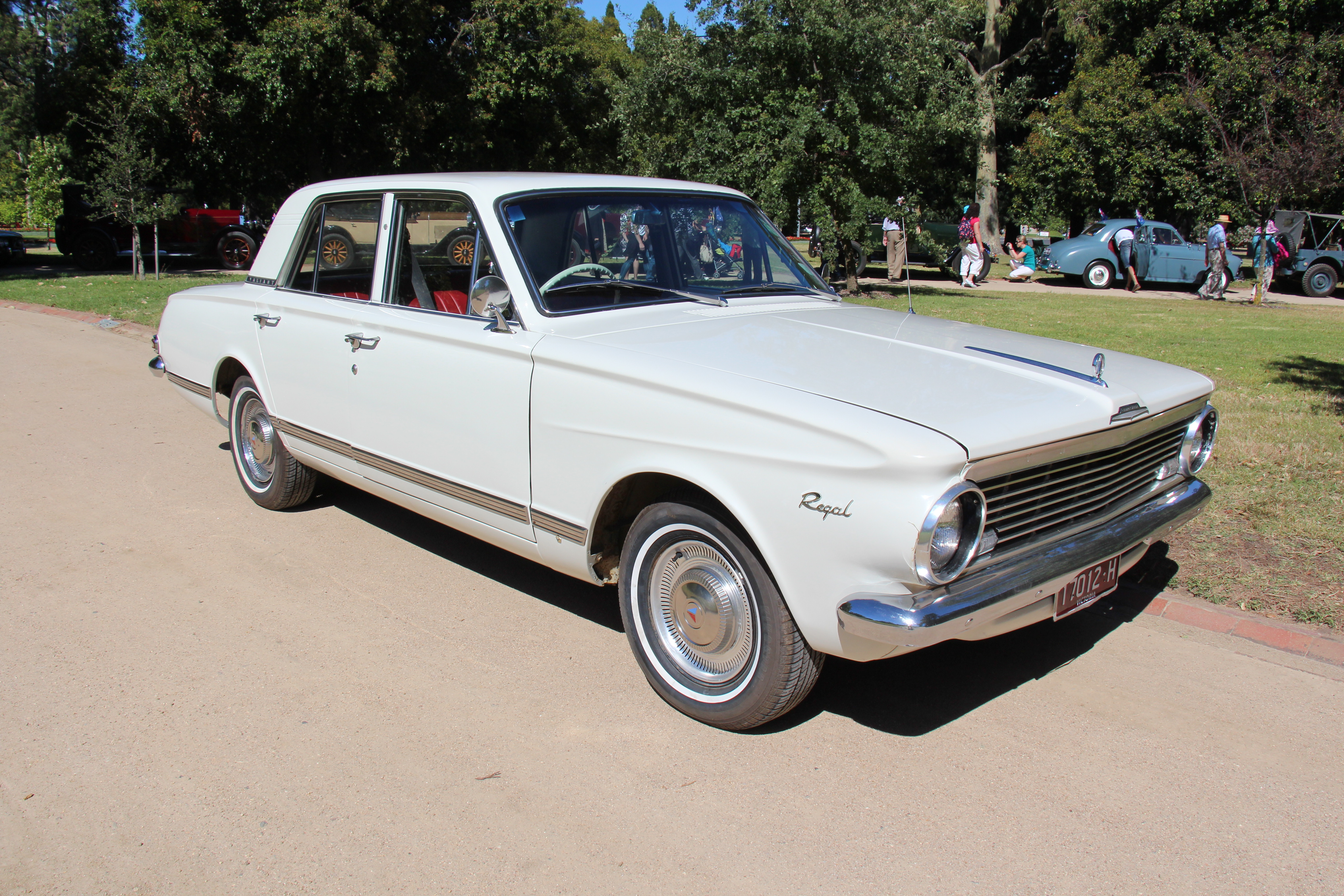 Chrysler Valiant AP5 Sedan